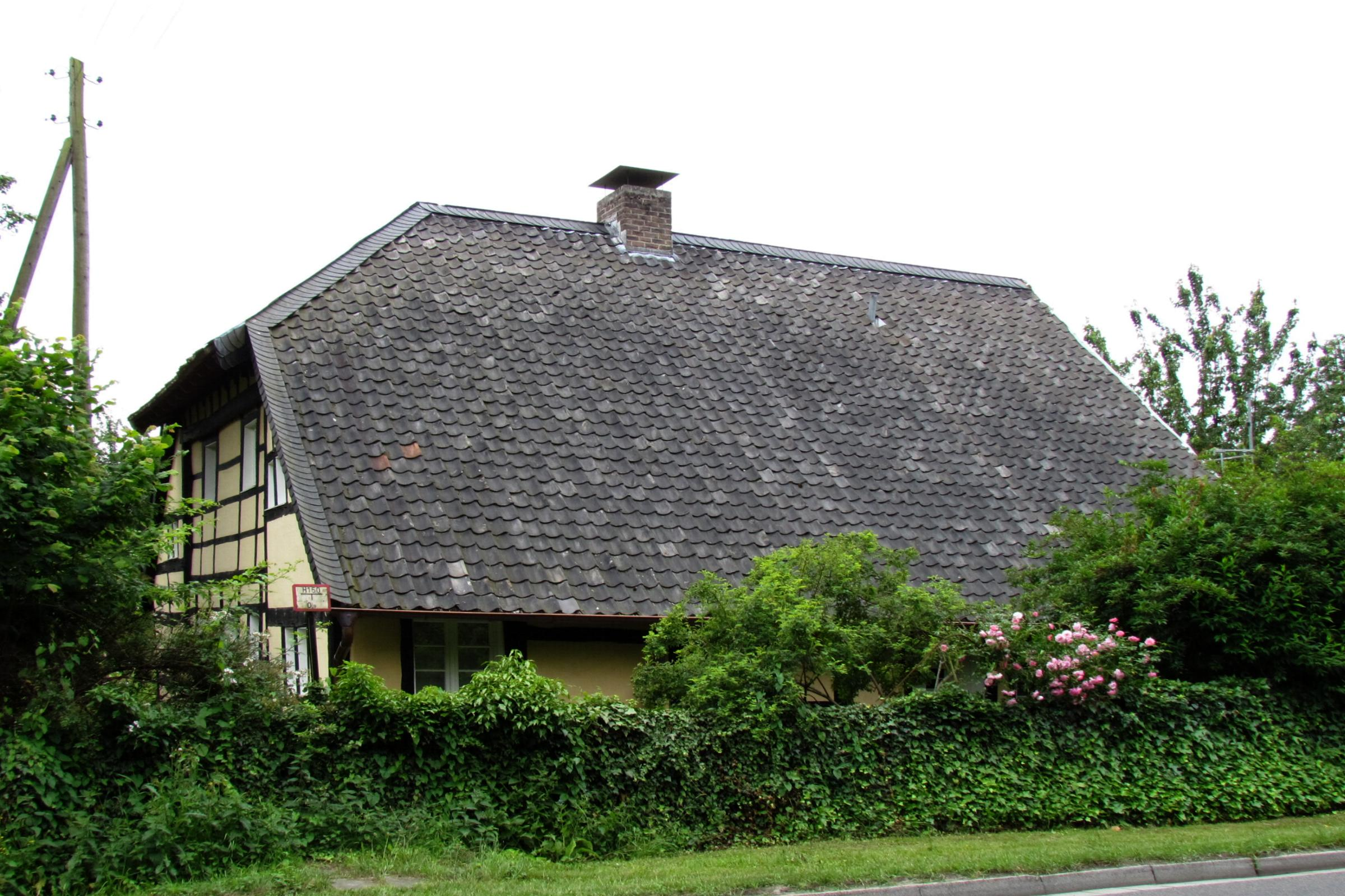 This is a photograph of an architectural monument.It is on the list of cultural monuments of Korschenbroich